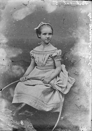 See below.